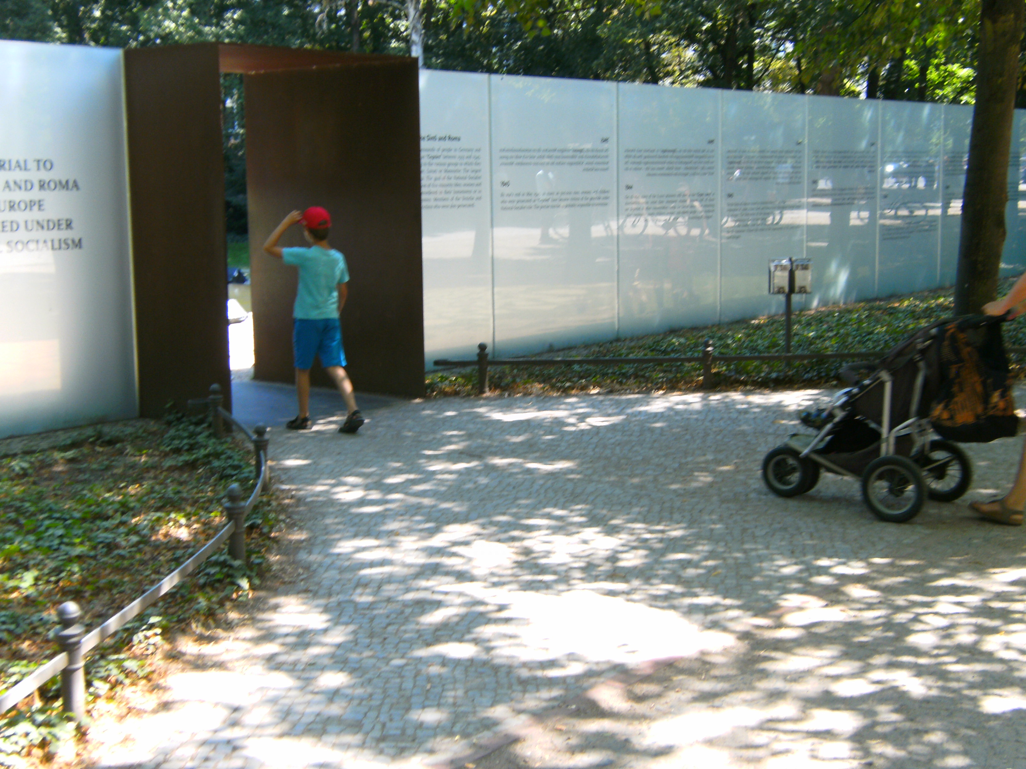 Memorial in the park Tiergarten south of Reichstagsgebäude (parliament) to the Sinti and Roma of Europe murdered under National Socialism in Berlin: entrance to the memorial zone.